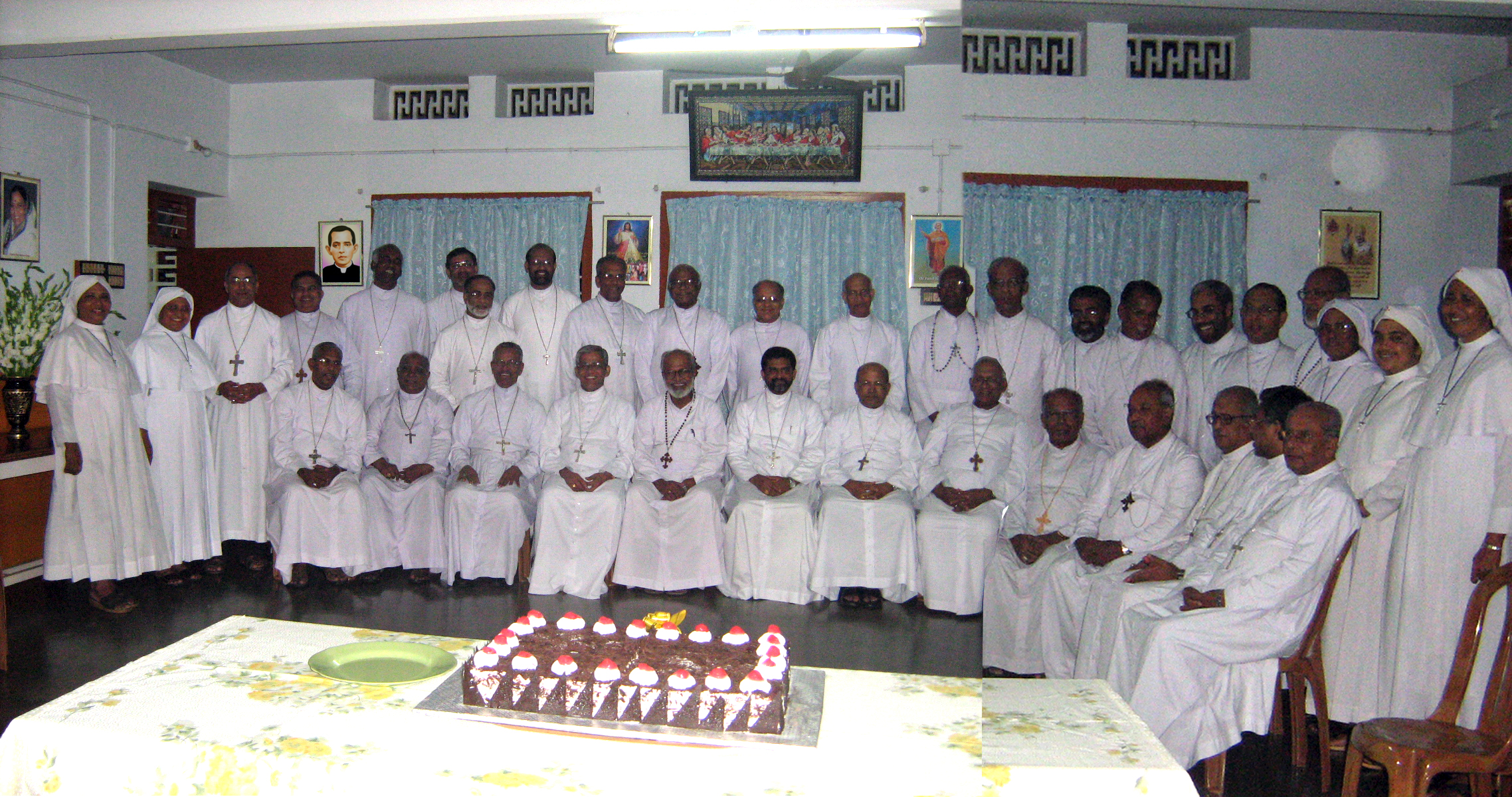 Syro-Malabar Catholic bishops at S. D. Congregation founded by Servant of God Mar Varghese Payyappilly Palakkappilly